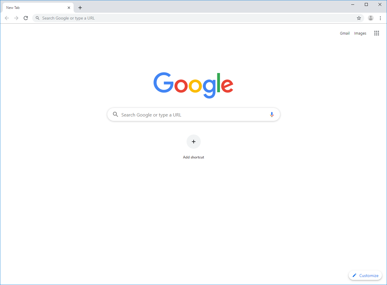 Screenshot of Google Chrome version 75 running on Windows 10